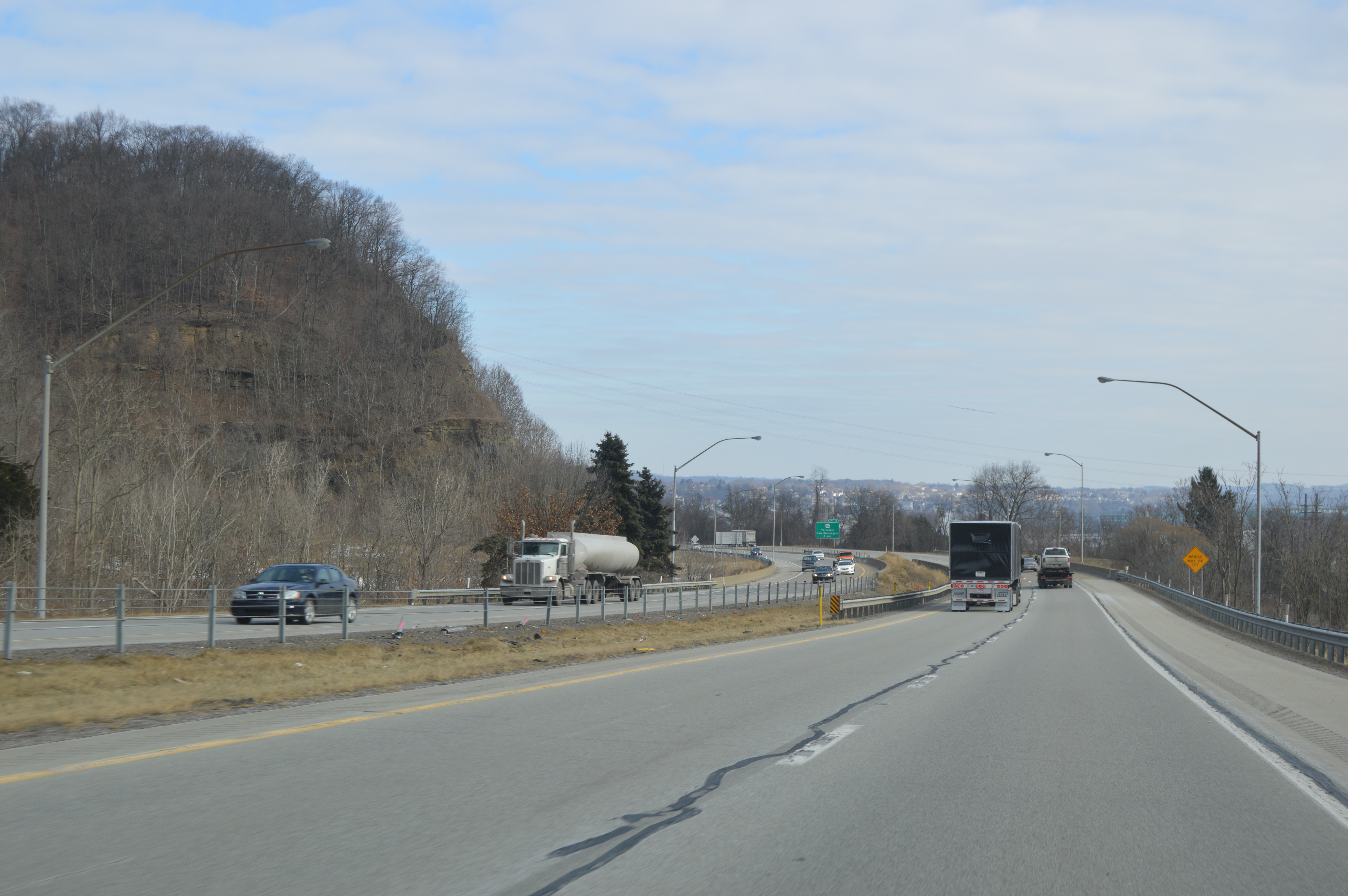 Travelling along the northbound lanes of Pennsylvania Route 28 Houses on the northern side of Spruce Street looking west from the Coolidge Avenue intersection in East Deer Township, Template:Allegheny County, Pennsylvania, Pennsylvania, United States.